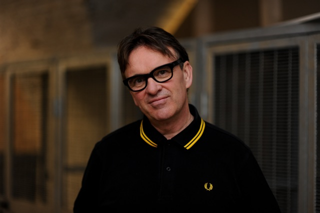 Personal shot by family member Grace Difford